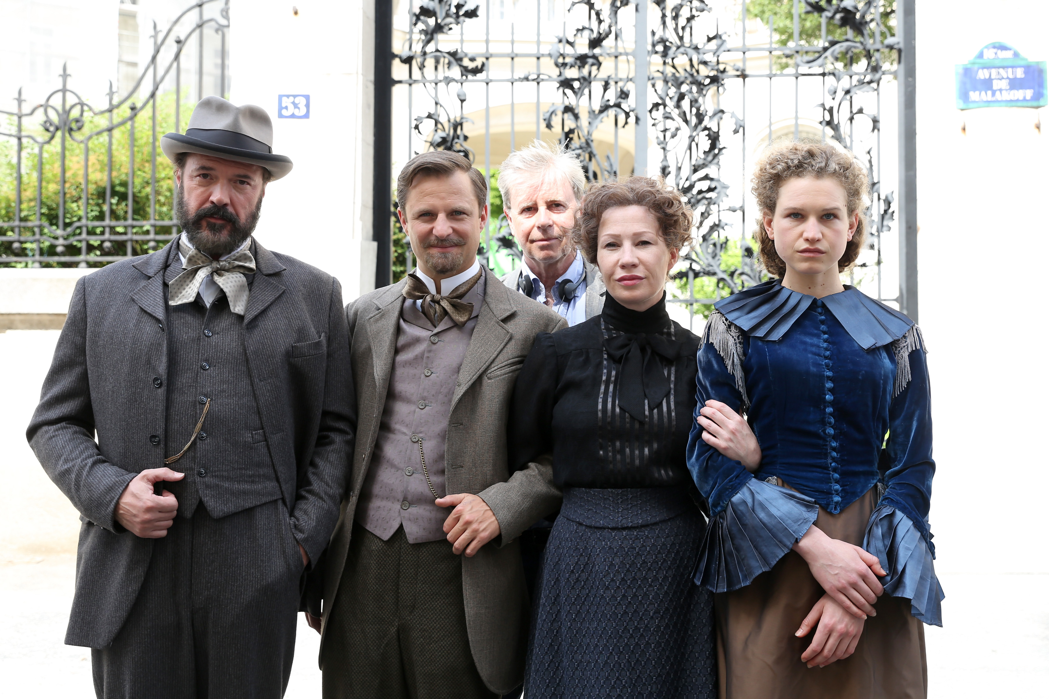 l.t.r.: Sebastian Koch as Alfred Nobel, Philipp Hochmair as Arthur von Suttner, director Urs Egger, Birgit Minichmayr as Bertha von Suttner and Yohanna Schwertfeger as Sofie Hess on the filming location of the movie Madame Nobel in and around the Embassy of France in Vienna (Vienna, Austria).